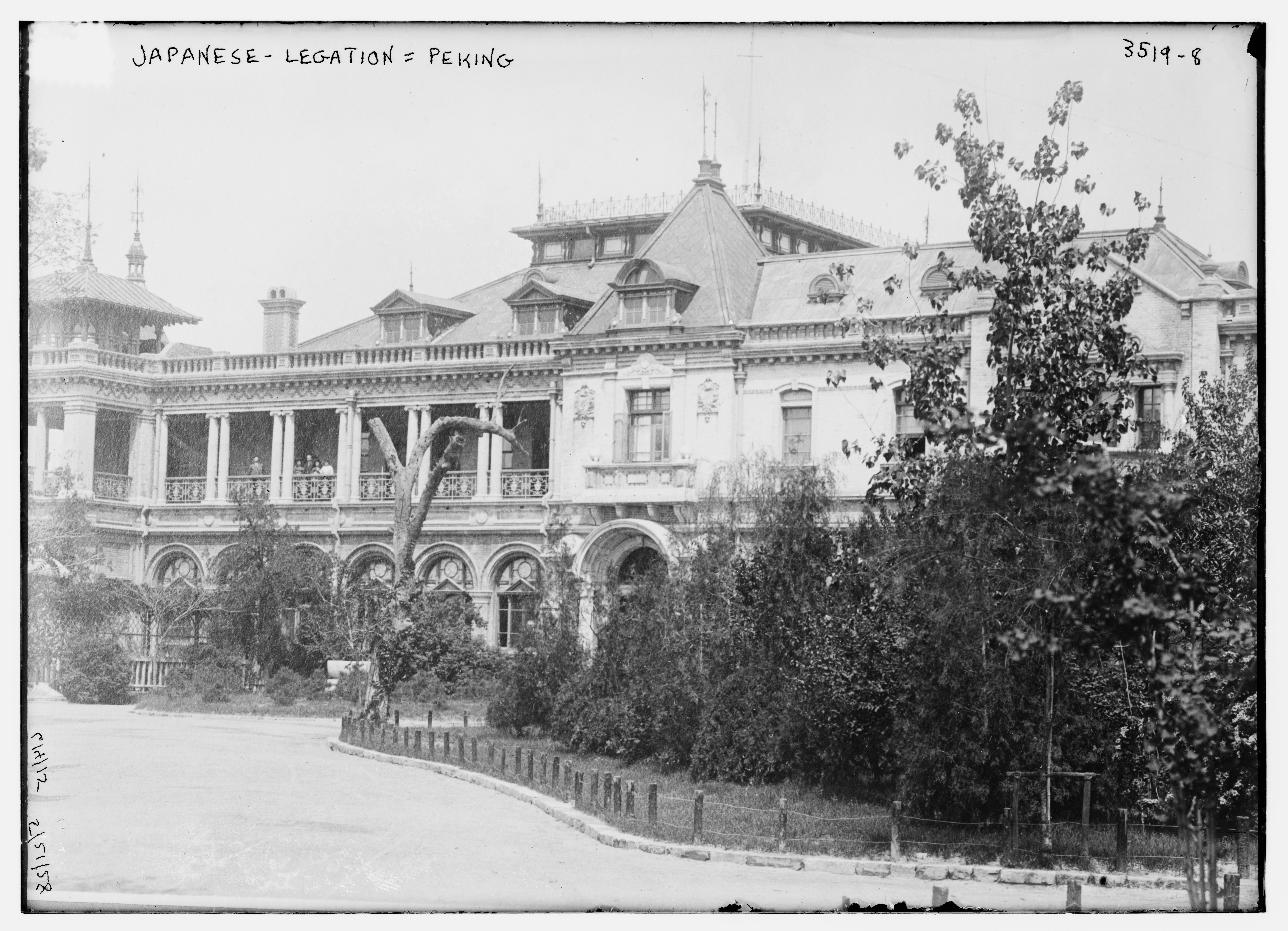 Title: Japanese Legation, Peking Abstract/medium: 1 negative : glass ; 5 x 7 in. or smaller. 北京議定書により北京の各国公使館区域が大幅に拡大され、日本政府は陸軍歩兵隊兵営と新公使館本館及び付属官舎を設置することにし、元文部省技師の眞水英夫が設計にあたった。在北京日本公使館として4代目となる本館建築は煉瓦造2階建てジャコビアン様式を基調とした折衷様式で、1908年に竣工した